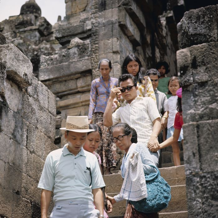 People visiting the Borobudur